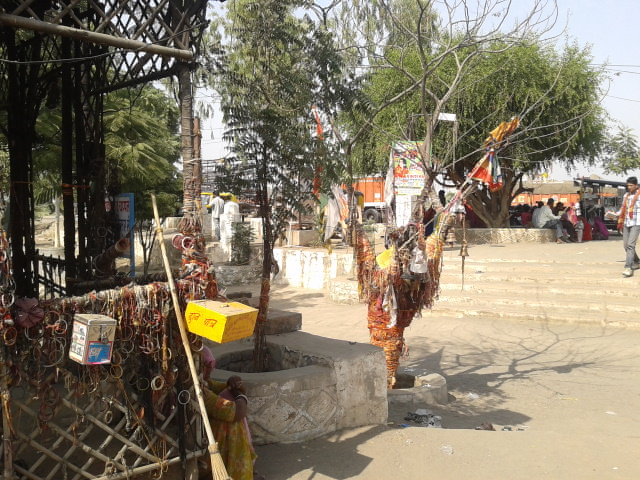 taken at Om Bana sthan, chotila